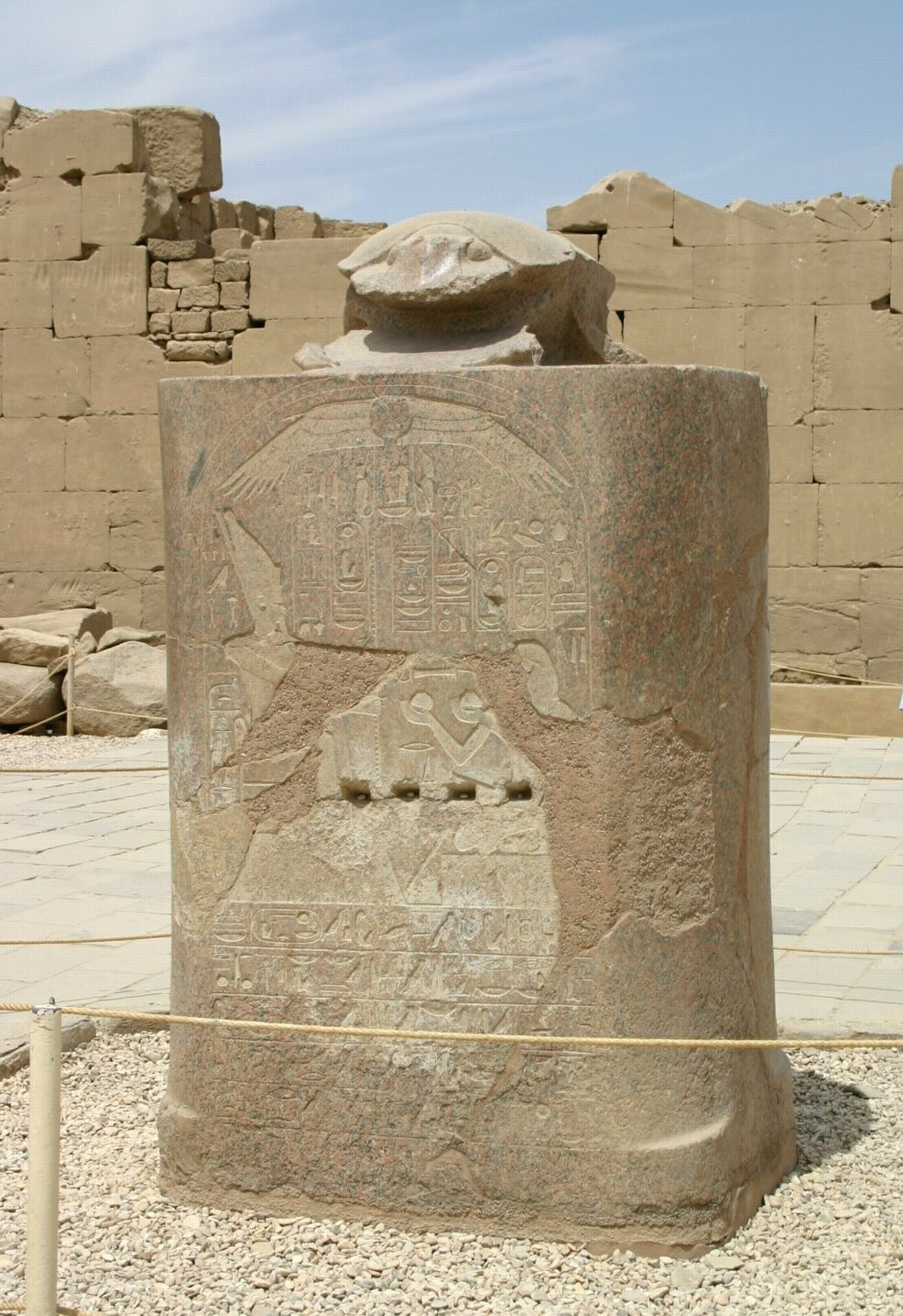 Statue of a Sacred Scarab beatle at the temple of Karnak, Egypt